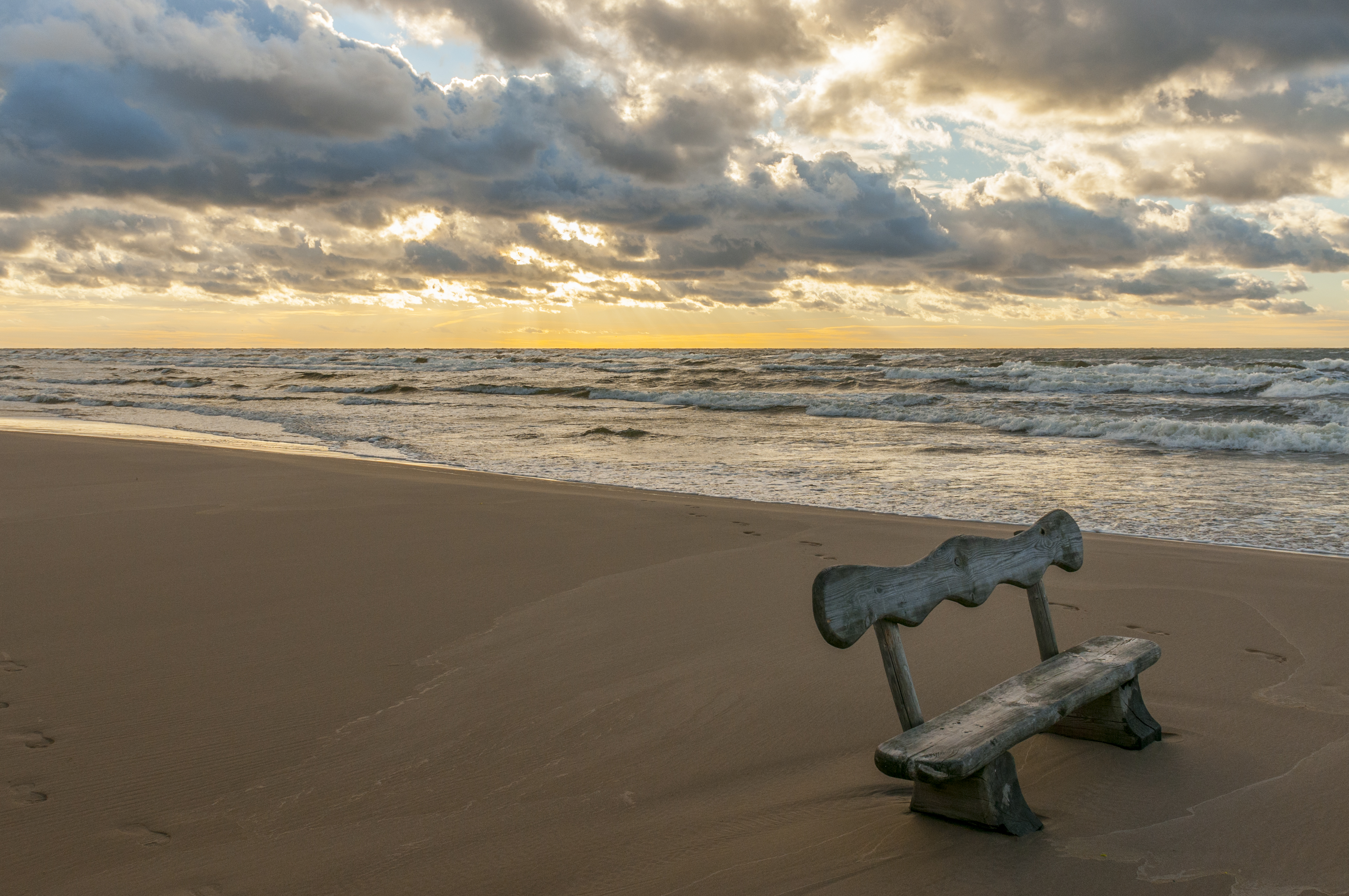 Vakabulli Beach, Riga, Latvia